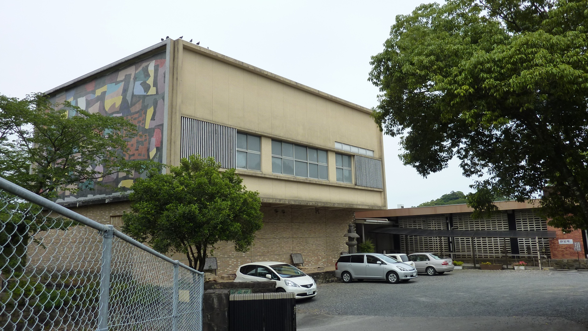 Naito Memorial Center (Nobeoka City, Miyazaki, Japan)